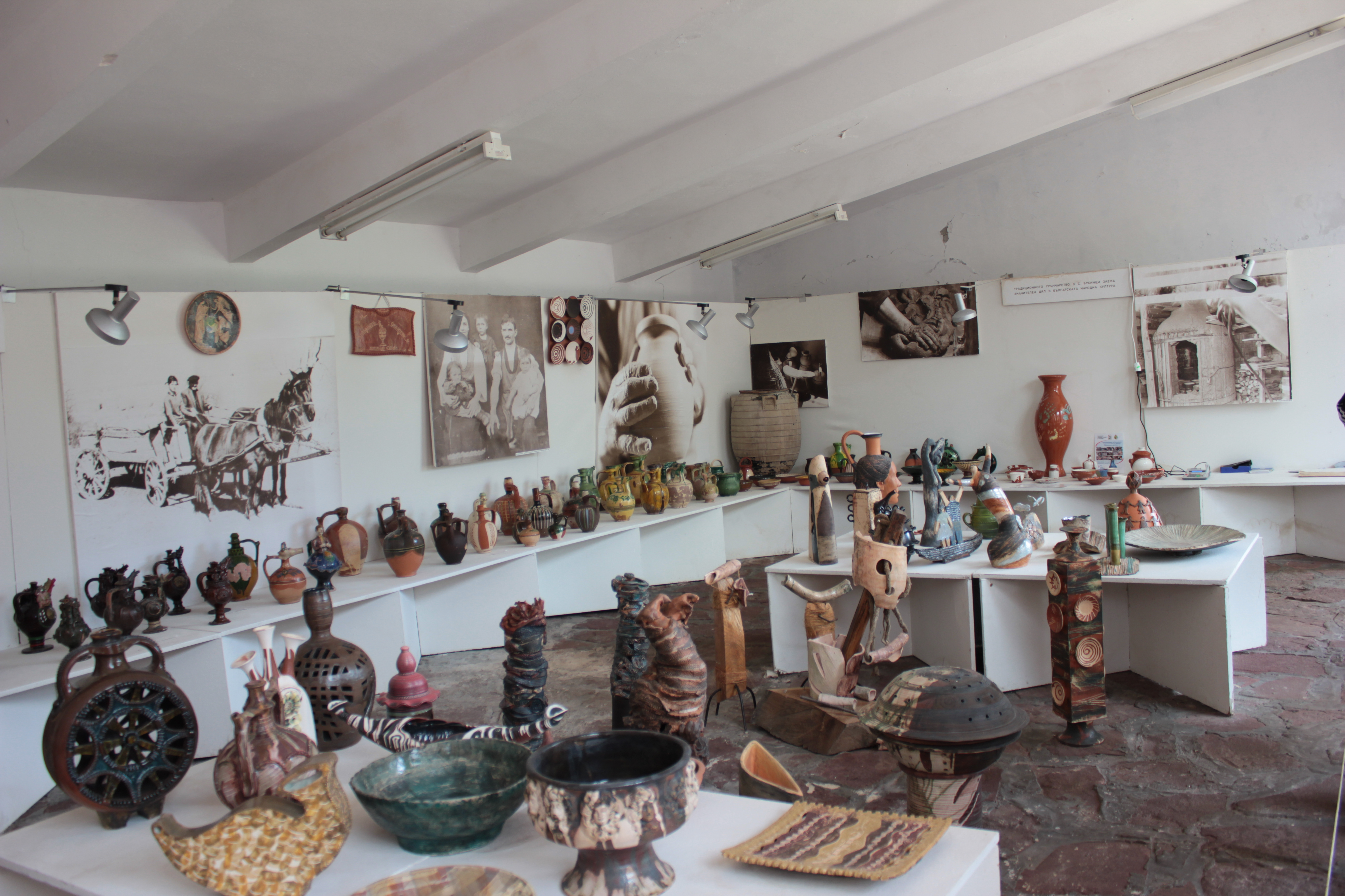 Busintsi Museum ceramics collection